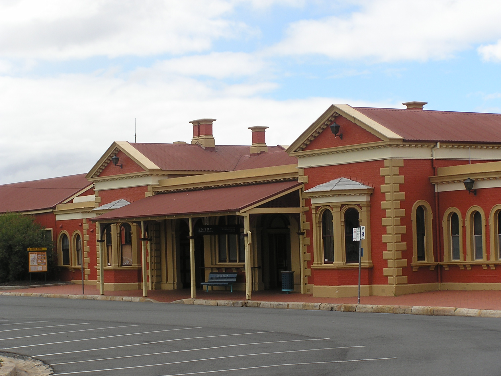 Goulburn, New South Wales, Australia - Railway Station - the railway reached Goulburn in 1869 and the station was opened in May 1869. Picture taken by AYArktos